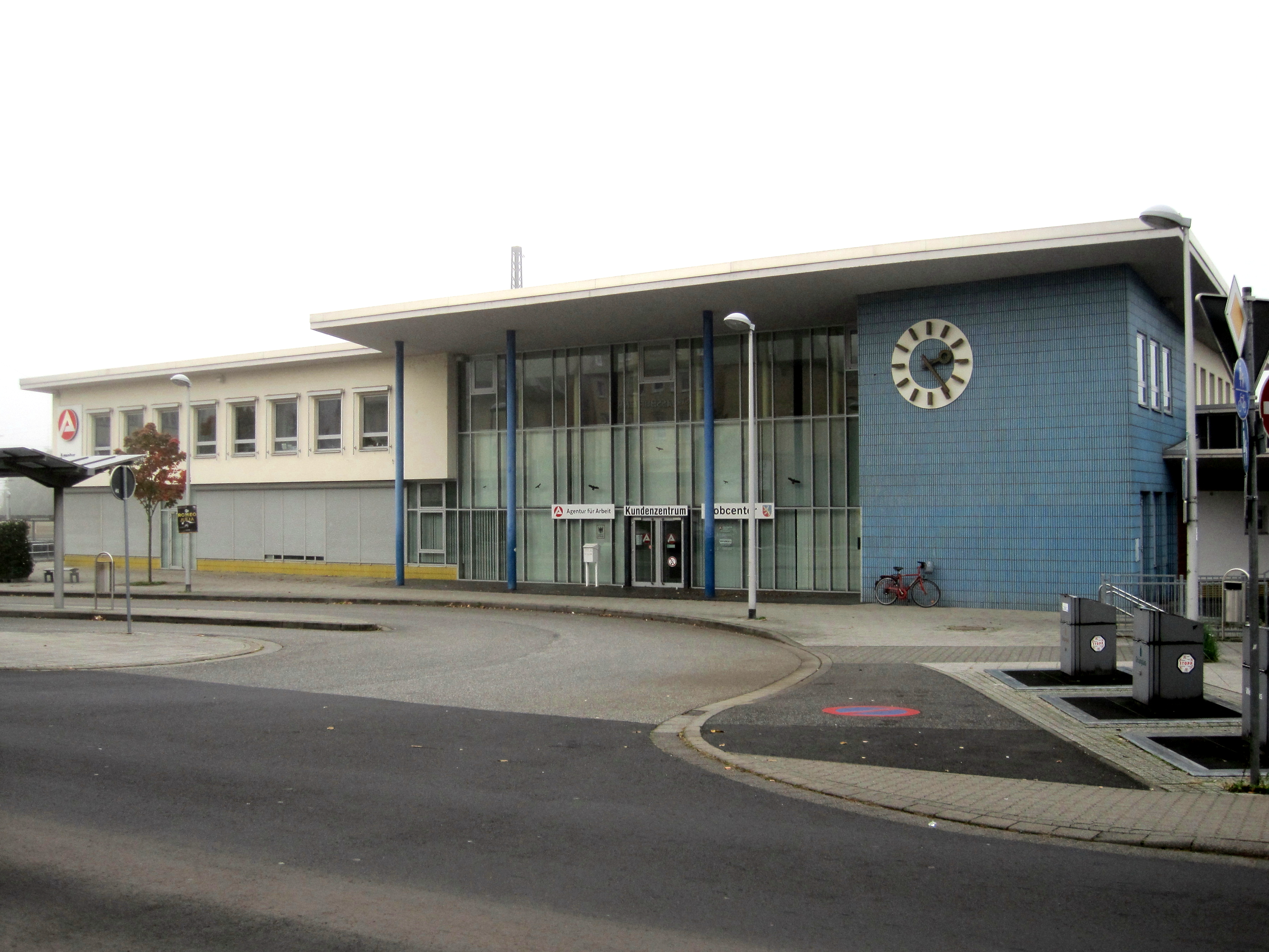 Niederlahnstein station. Former station building, built in 1960. Koblenzer Str. 1, Niederlahnstein, Rhineland-Palatinate, Germany.